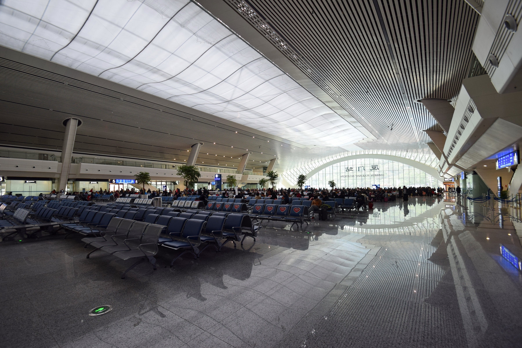 Concourse of New Xiamen Railway Station